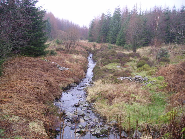 Grizedale Beck On the approach to Moor Top